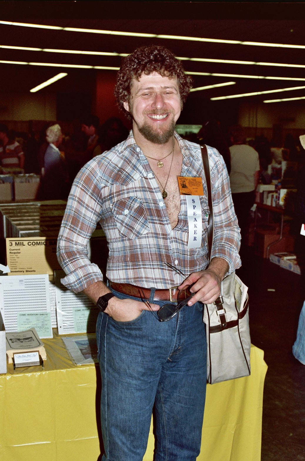 1982 San Diego Comic-Con International. Scanned from the original 35MM film negative. NOTE: Permission granted to copy, publish, broadcast or post any of my photos, but please credit "photo by Alan Light" if you can. Thanks.